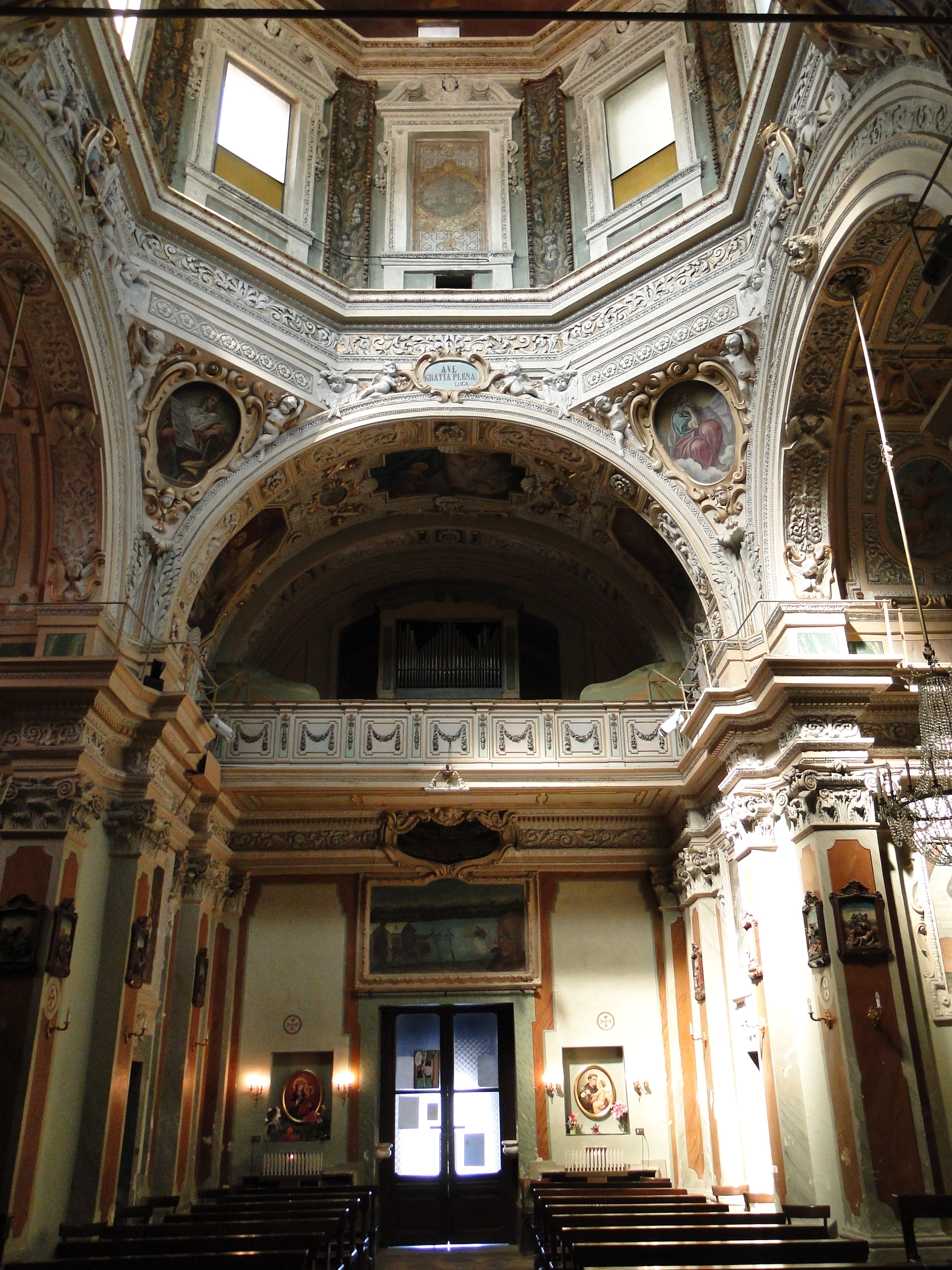 Church of Madonna del Pilone in Turin - Entrance side